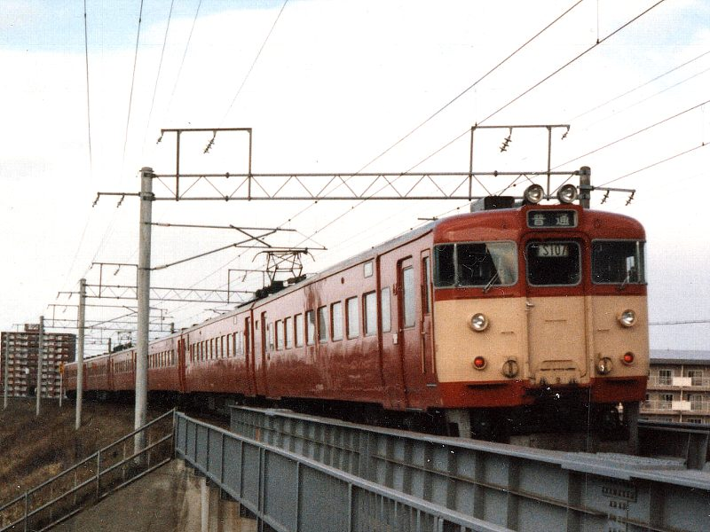 JNR 711 series EMU set S107 in original livery on the Chitose Line between Shin-Sapporo and Ueno-Sapporo